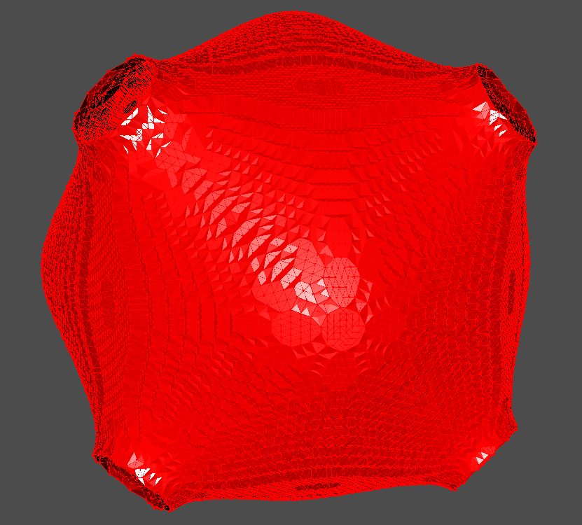 Fermi surface of bulk silver: alpha-shape reconstruction from the electronic Bloch spectral function in the Korringa, Kohn and Rostoker multiple scattering framework for first-principles electronic structure calculations.